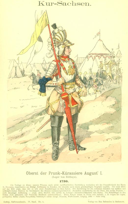 Kur-Sachsen: Oberst der Prunk-Kürassiere August's I. (Lager von Zeithayn). 1730